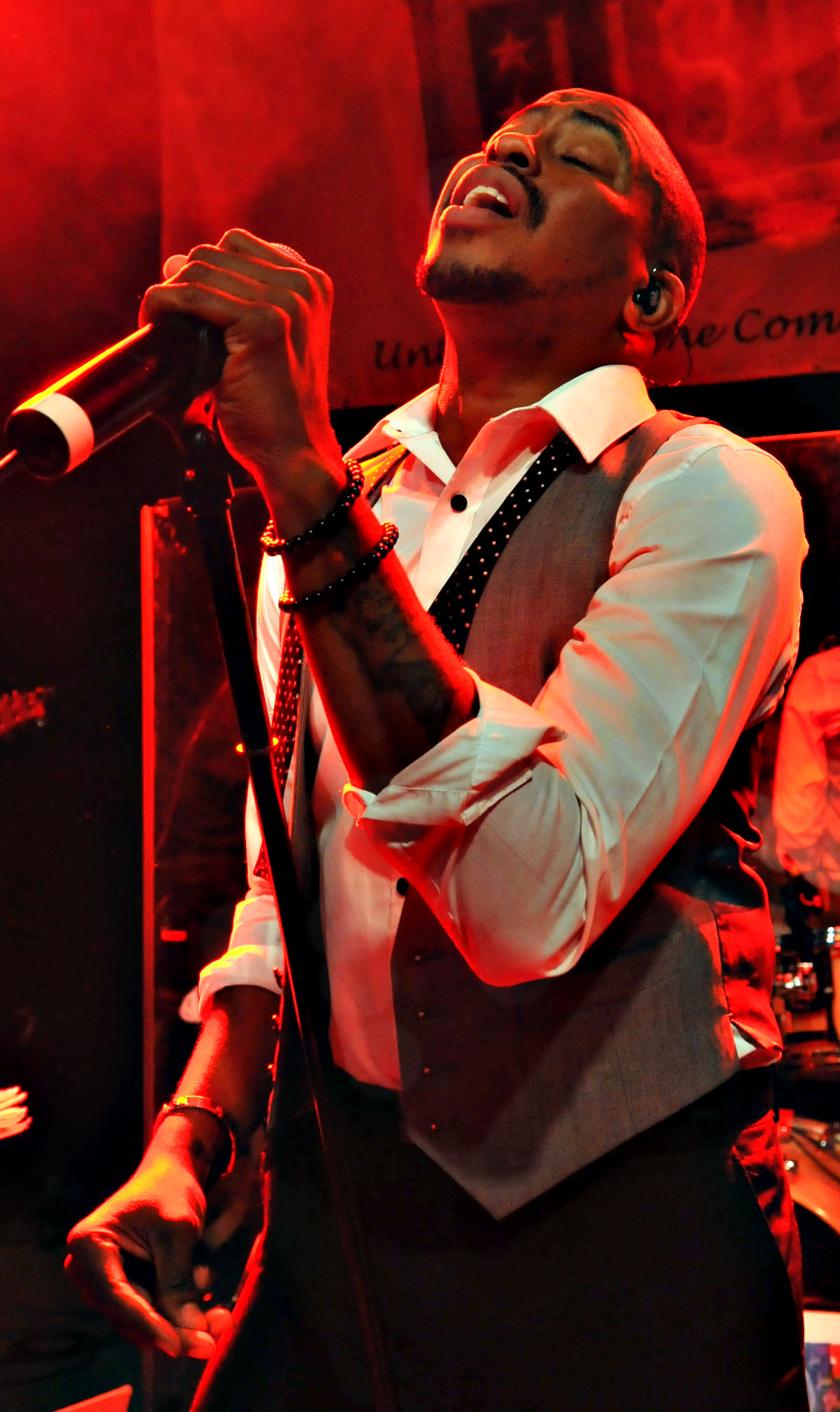 Raheem DeVaughn, American singer/songwriter performs for military members, Ramstein Air Base, Germany, Sept. 20, 2010. Raheem DeVaughn was visiting Germany on a USO tour to boost service members morale. (U.S. Air Force photo by Airman Desiree Esposito)